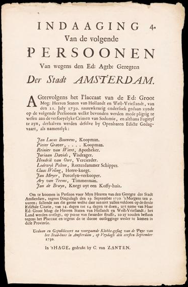 Wanted poster for sodomites. Human Sexuality Collection, Division of Rare and Manuscript Collections, Cornell University Library. Transcription: INDAAGING [4.] Van de volgende PERSOONEN Van wegens den Ed: Agtb: Geregten Der Stadt AMSTERDAM. Agtervolgens het Placcaat von de Ed: Groot: Mog: Heeren Staten von Hollandt en West-Vrieslandt, van den 11. July 1730. naauwkeurig ondersoek gedaan zynde op de volgende Persoonen welke bevonden werden mede pligtig te wesen aan de verfoeyelyke Crimen van Sodomie, en althans Fugityf te zyn, derhalven werden deselve by Openbaren Edicte Gedagvaart, als namentlyk: Jan Lucas Bowens, Koopman. Pieter Graver, Koopman. Reinier van Wiert, Apotheker. Juriaan Davids, Visdrager Hendrik van Oort, Vercierder. Lodewyk Polton, Rotterdammer Schipper. Claas Weling, Heere-knegt. Jan Meyer, Porcelyn-verkooper. Ary van Teems, Timmerman. Jan de Bruyn, Knegt uyt een Koffy-huis. Om te kommen in Persoon voor Myn Heeren van de Geregte der Stadt Amsterdam, tegens Dingsdagh den 19. September 1730 's Morgens ten 9. uuren; sullende aan de geene welke daar aan niet zullen voldoen op de derde Edictale Citatio, van 14. dagen tot 14 dagen te doen, uyt name van Haar Ed: Groot Mog: de Heeren Staten van Hollandt en West-Vrieslandt ; het Lad werden ontsegt, op poene van swaarder straffe, zo zy zouden bestaan tegens het Placcaat en tegens de te doene ontsegginge weder te komen in dese Provintie. Gedaan en Gepubliceert na voorgaaande Klokke-geslag van de Poye van het Stad-huss in Amsterdam, vp Vrydagh den eersten September 1730. In 's HAGE, gedrukt by C. van ZANTEN.